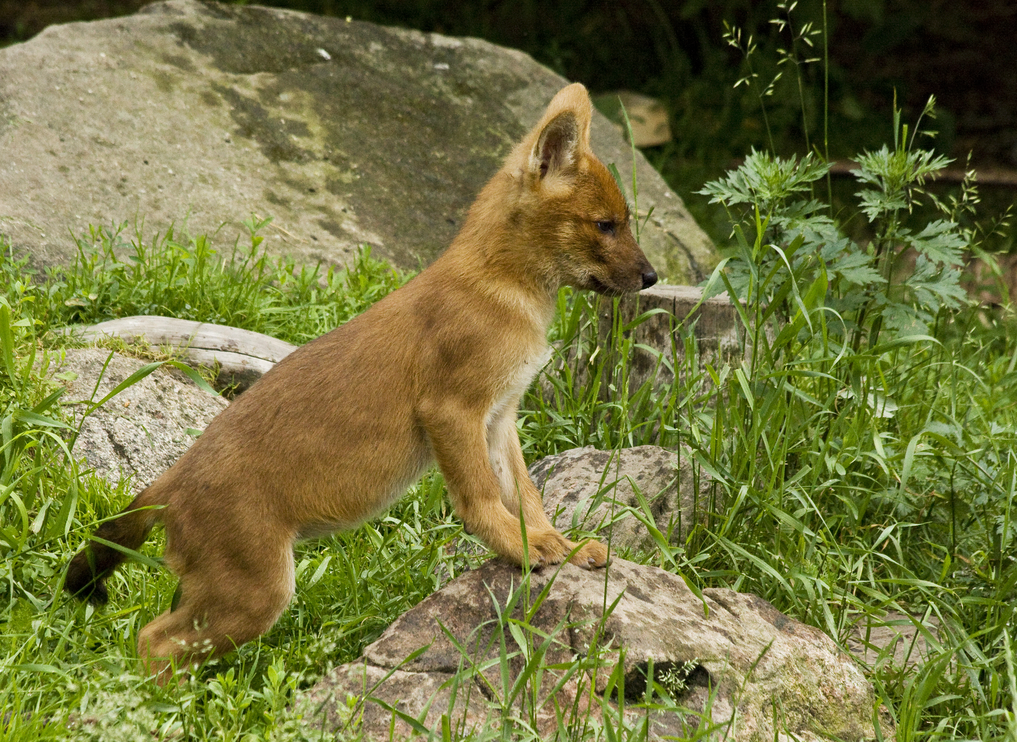 A dhole pup (Cuon alpinus alpinus). Kolmårdens djurpark, Sweden.